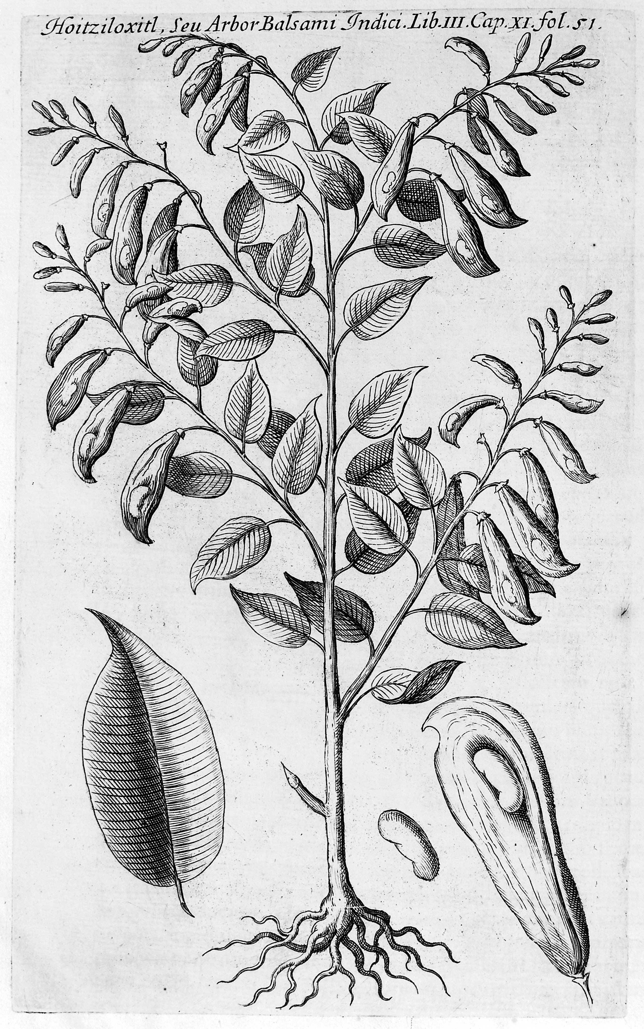 Balsam of Peru. The earliest known illustration of the tree. Rare Books Keywords: Materia Medica